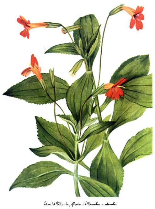 Watercolor painting of Mimulus_cardinalis.